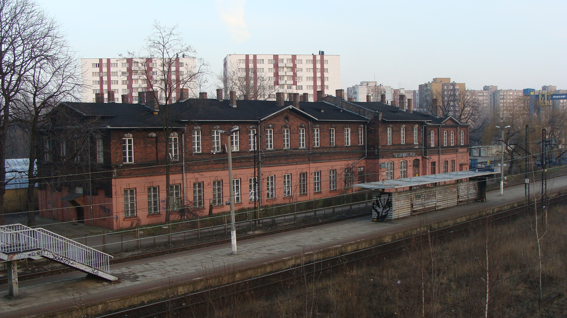 Railway station - "Sosnowiec Południowy"